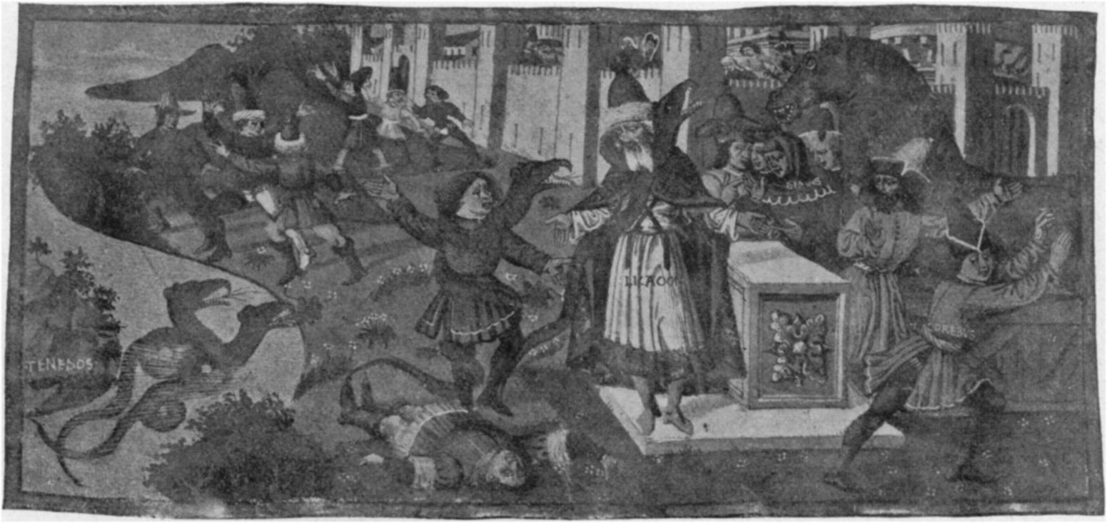 Miniature of the Codex Riccardianus 492 folium 78v.